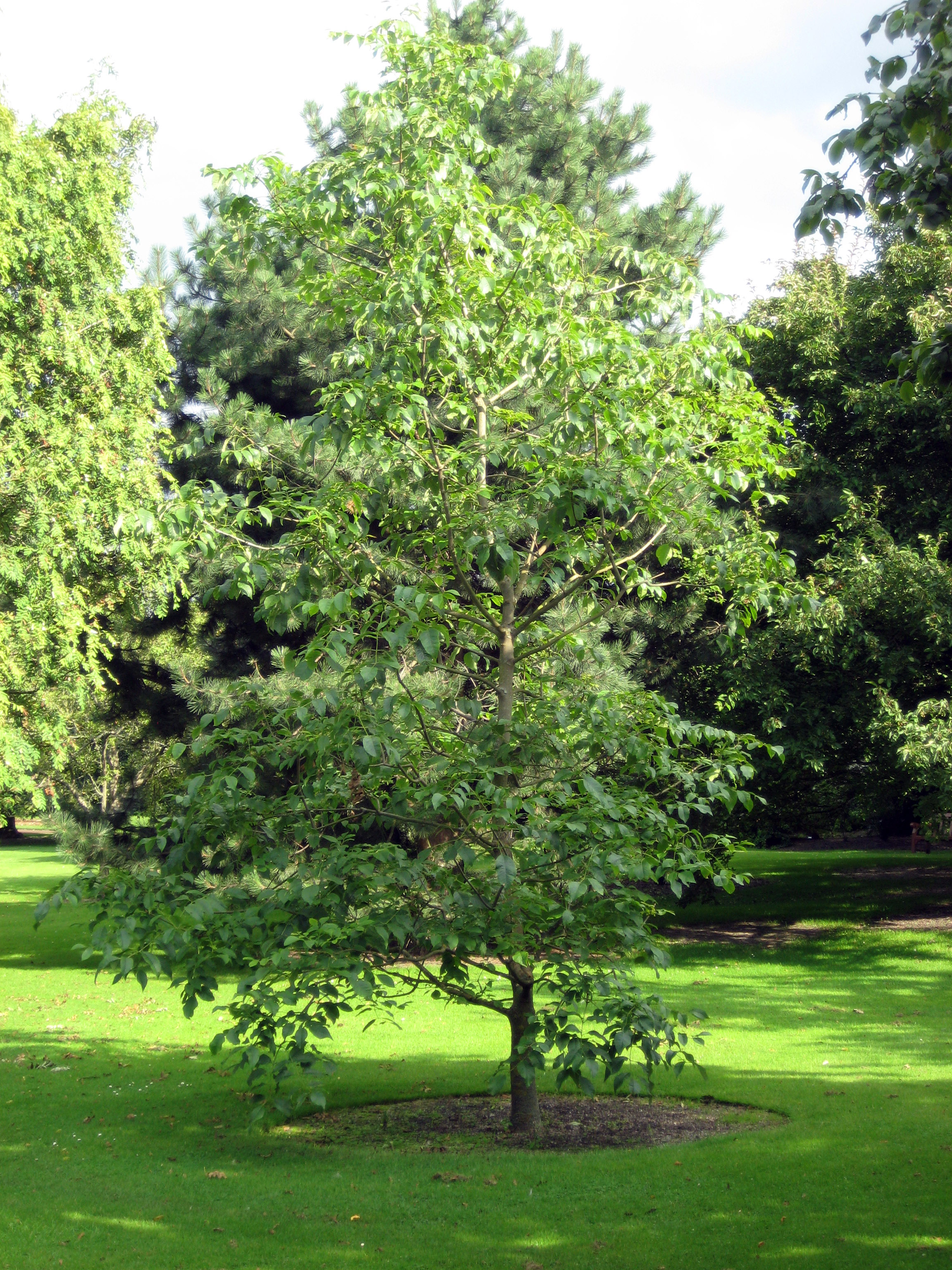 Pumpkin Ash Royal Botanic Garden Edinburgh: Accession number 1993.1493 D